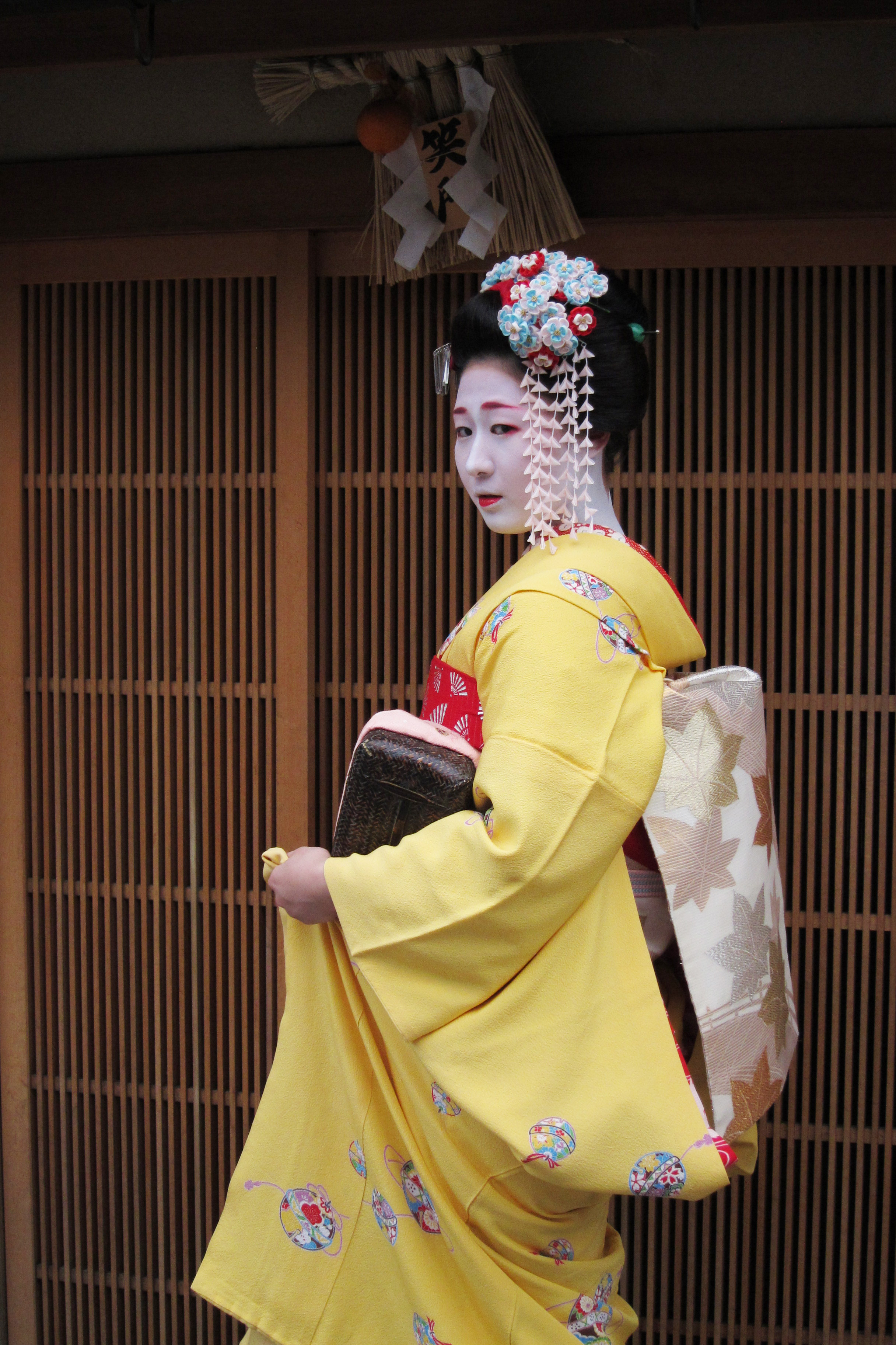 A minarai, young girl that becomes a geisha apprentice in 2 weeks. Katsunosuke of Odamoto okiya (Gion Kôbu).